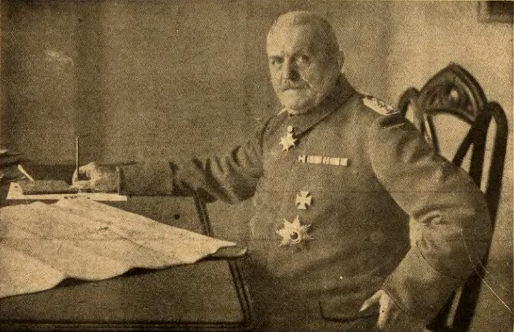 General Martin Wilhelm Remus von Woyrsch (1847-1920)